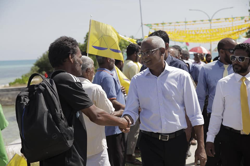 Presidential candidate Hon. Ibrahim Mohamed Solih campaigning in the Atoll